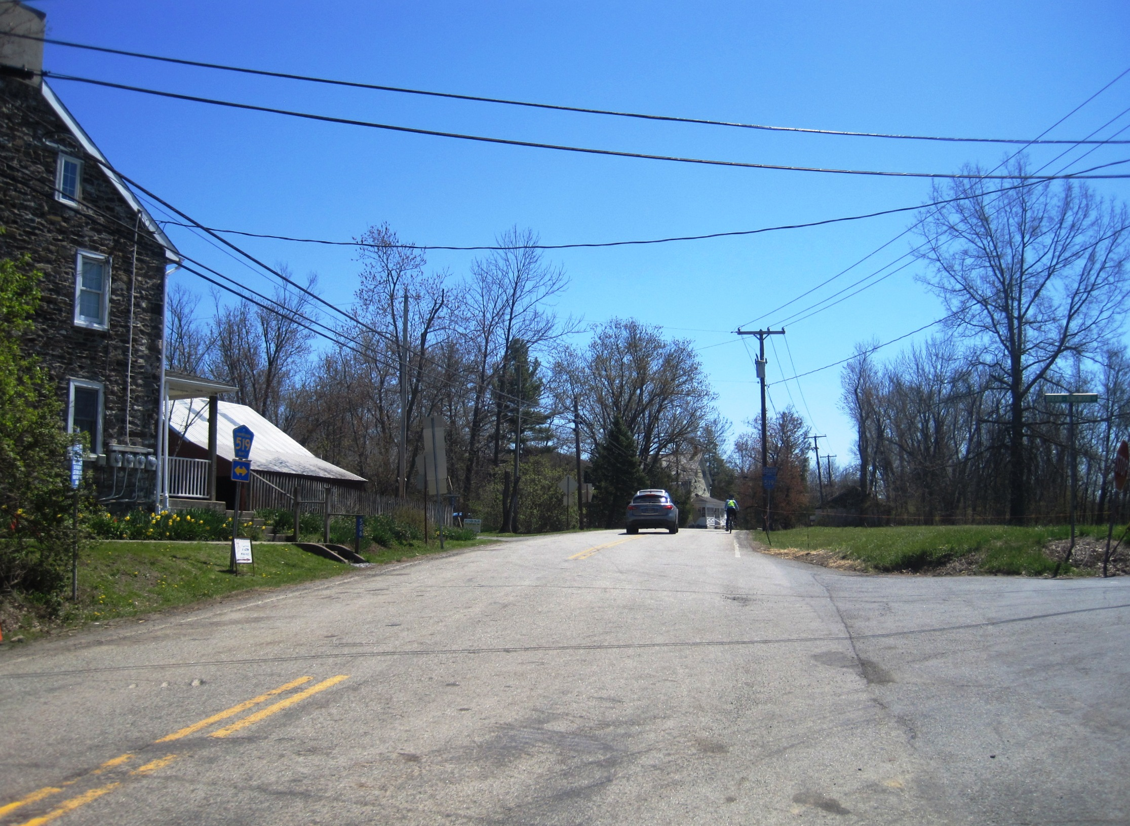 Photo of Kingwood, an unincorporated community within Kingwood Township. Photo taken on southbound County Route 519 at Byram-Kingwood Road (CR 651, formerly CR 519 Spur).